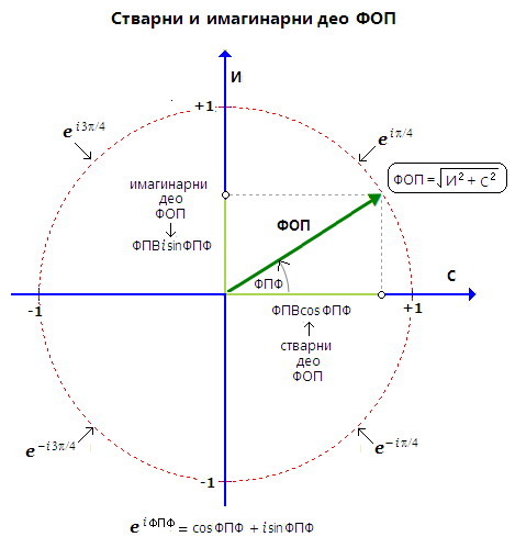 Имагинарни и стварни део функције оптичког преноса (ФОП)